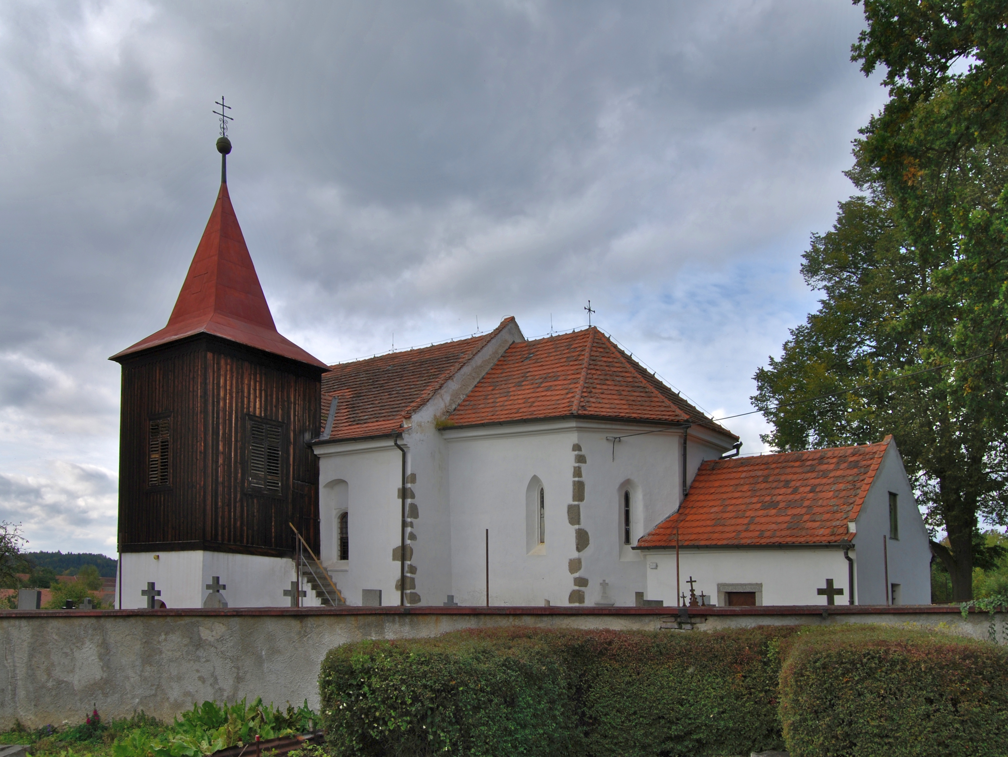 Church of Saint Bartoloměj in Kocelovice village in Strakonice District. Czech Republic.